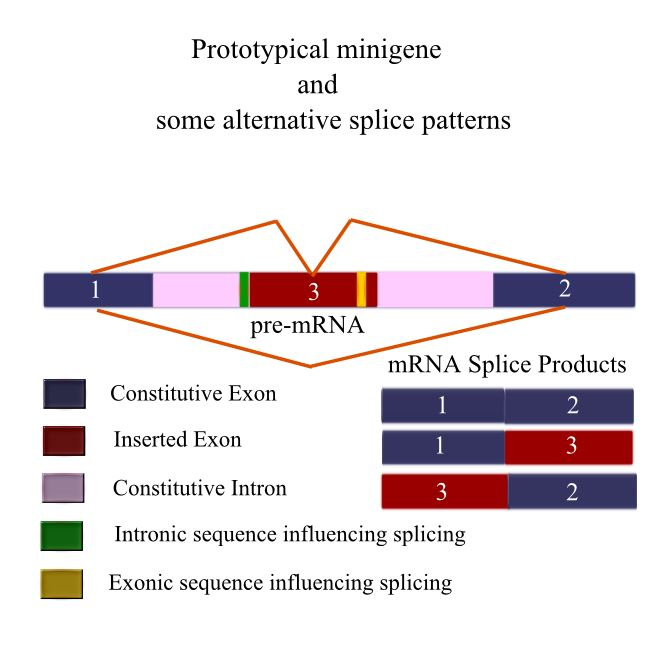 Modified splice diagram for minigene splicing